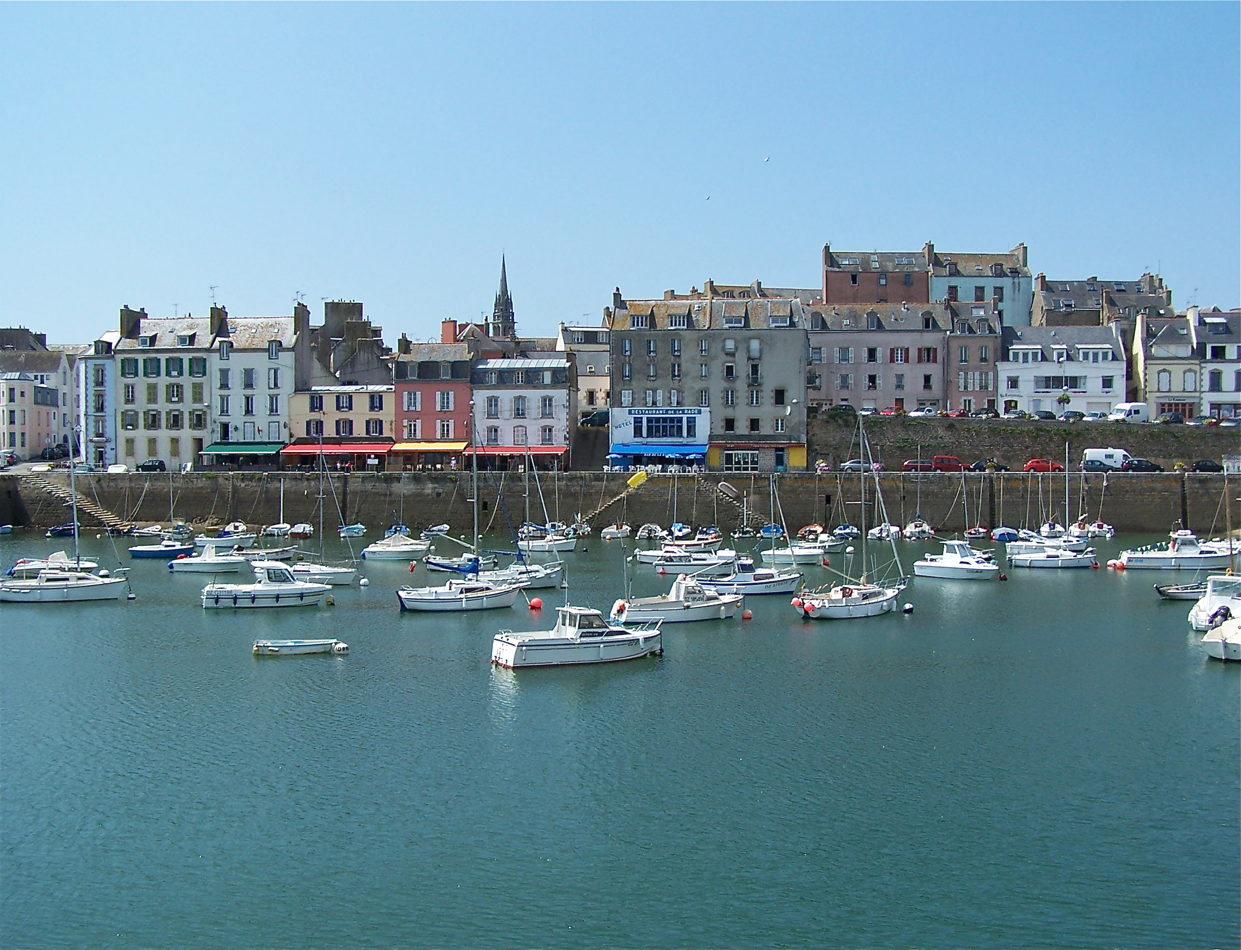 General view of the Port du Rosmeur at Douarnenez, France